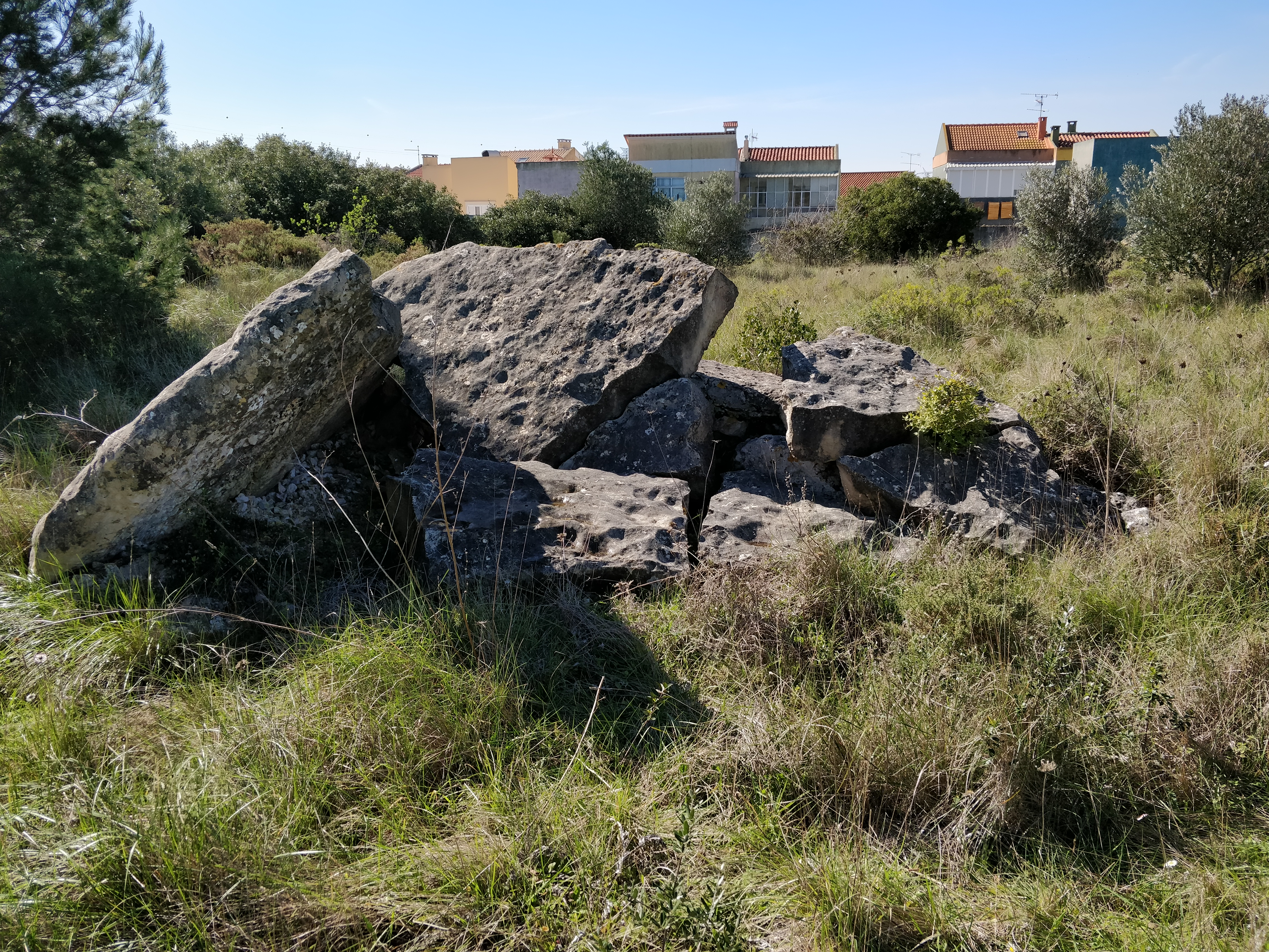 The Anta da Pedra dos Mouros, a megalithic dolmen situated close to Queluz, near Lisbon, Portugal